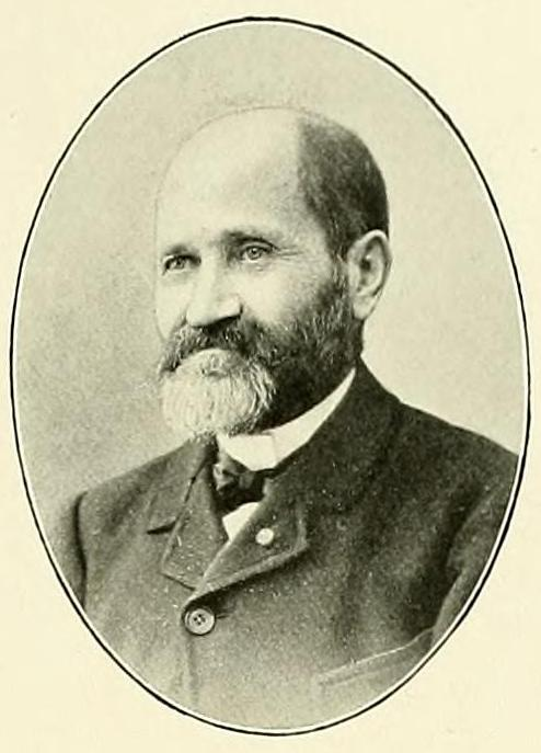 Portrait of the French botanist Jules Battandier